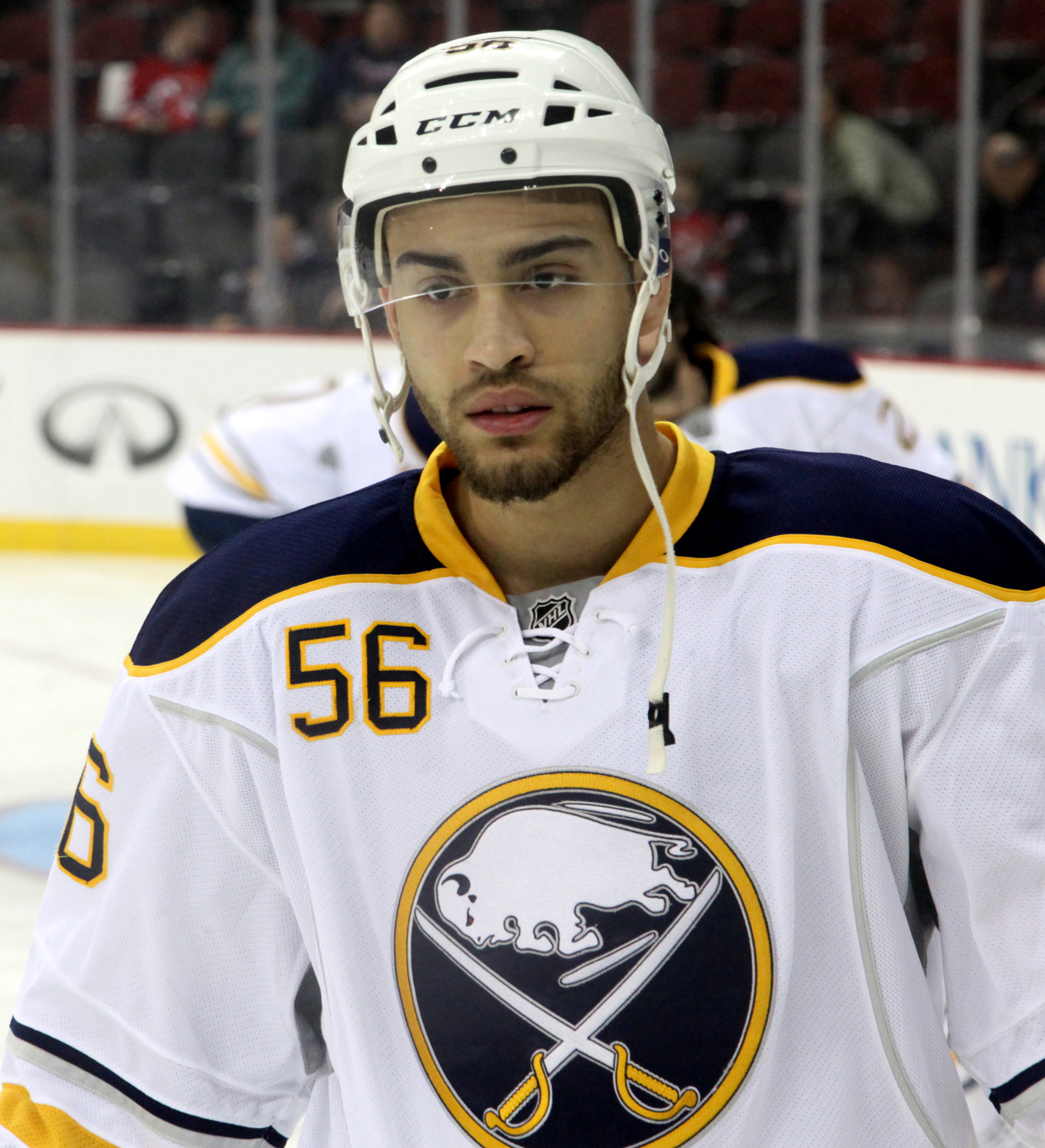 Justin Bailey in April 2016.